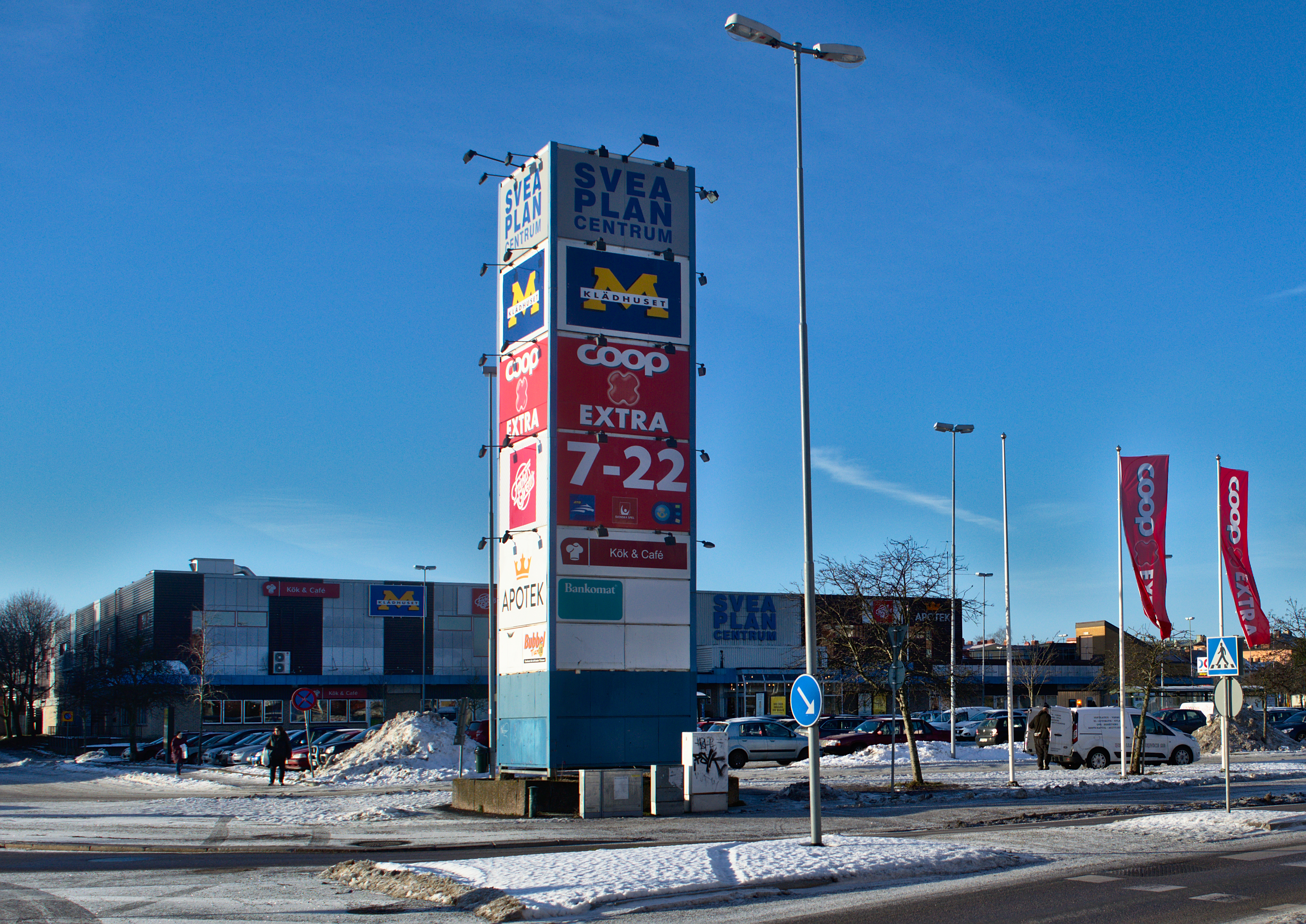 Shopping mall Sveaplan in Eskilstuna, Sweden.